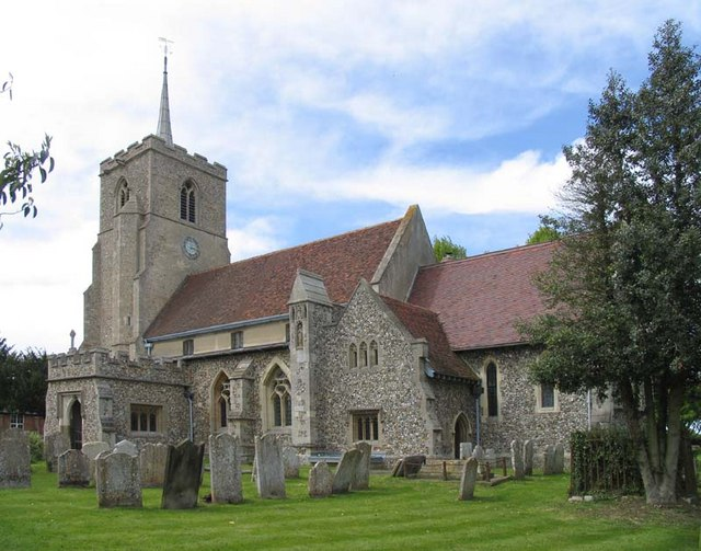 St Mary the Virgin, Albury, Herts